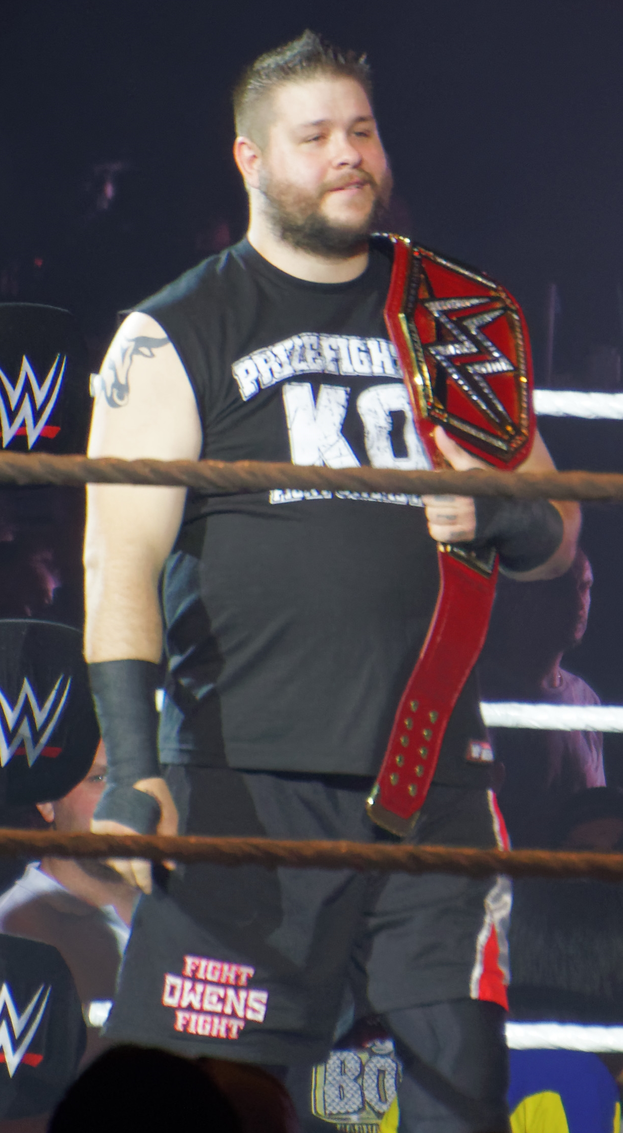 Kevin Owens as Universal Champion in September 2016